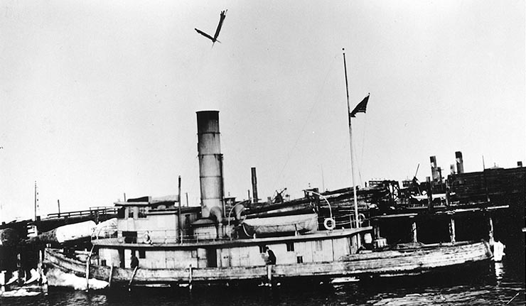 The tug Knickerbocker, around the time of her 5 May 1917 acquisition by the United States Navy for service as the tug, minesweeper, and dispatch ship